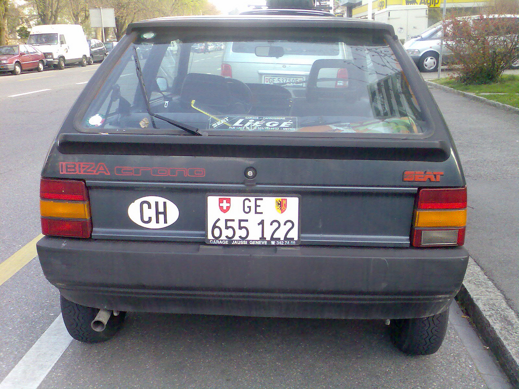 printemps 452 SEAT IBIZA , Carouge GE Suissa Je me Souviens de Jacko, Bambi. Off The Wall